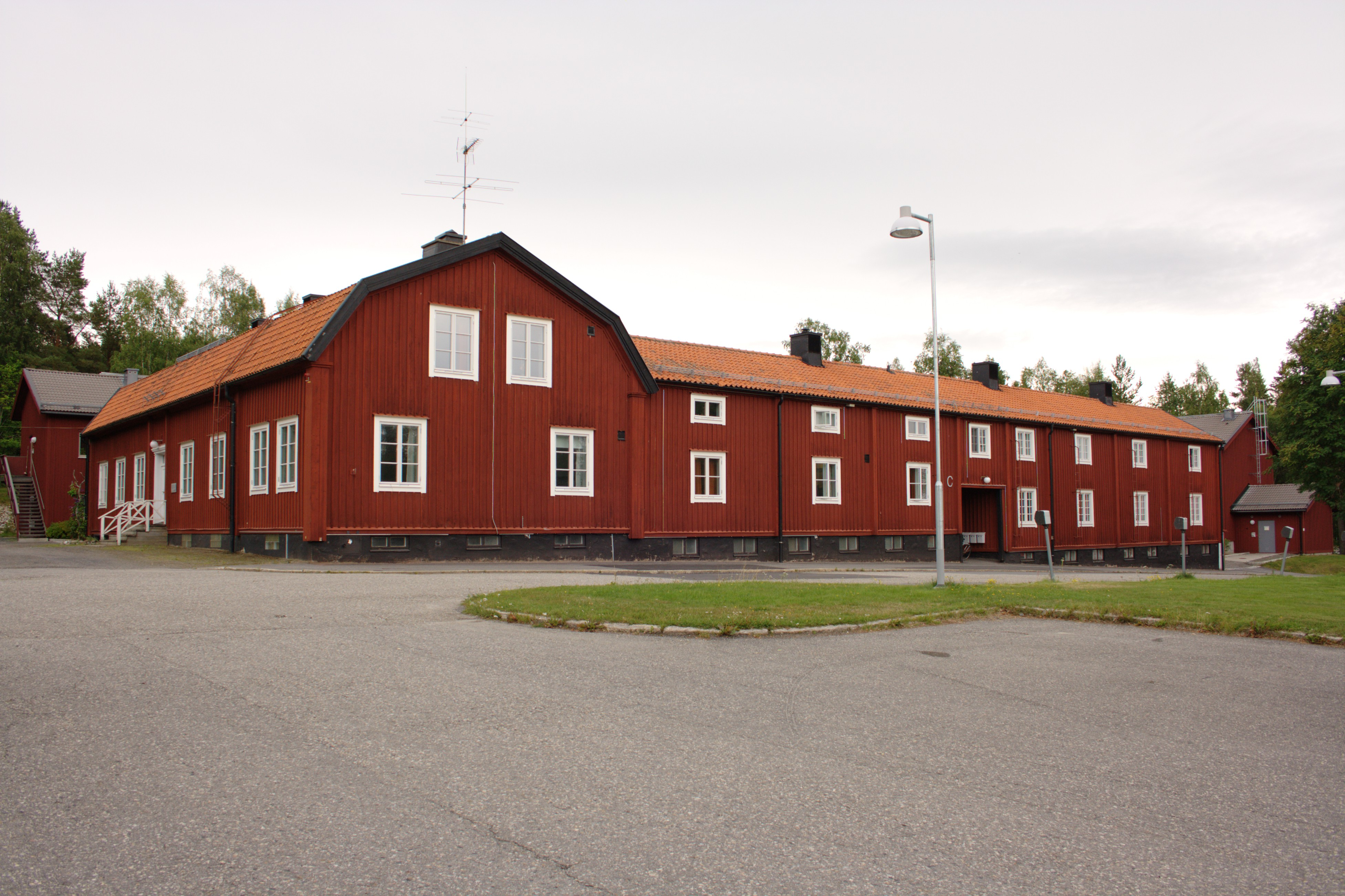 Lars Färgares gård in Umeå